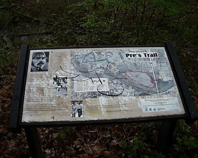 Interpretive sign and map of Pre's Trail at the Eastgate Woodlands part of Alton Baker Park in Springfield, Oregon near Aspen Street